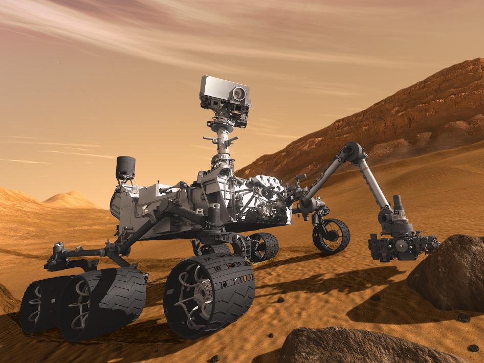 Image credit: NASA/JPL-Caltech This artist concept features NASA's Mars Science Laboratory Curiosity rover, a mobile robot for investigating Mars' past or present ability to sustain microbial life. Curiosity launched to Mars on November 26, 2011, and landed less than a year later on August 6, 2012. In this picture, the rover examines a rock on Mars with a set of tools at the end of the rover's arm, which extends about 2 meters (7 feet). More information about Curiosity is at